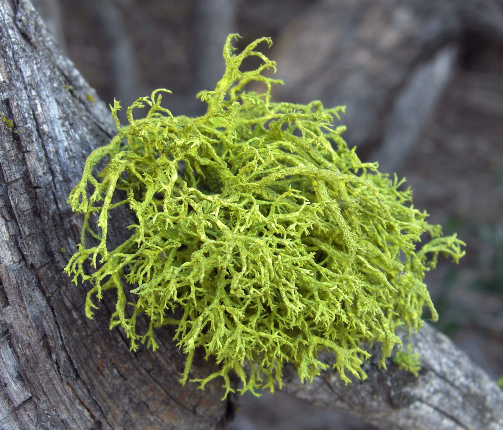 The lichen Letharia vulpina (L.) Hue photographed on Pseudotsuga macrocarpa and Calocedrus bark and wood in places with northern exposure. Location: Mt. Gleason, San Gabriel Mountains, Los Angeles Co., California, USA.